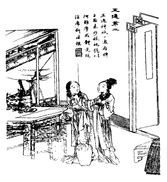 19th-century illustration of a scene from the short story "Another Wutong Spirit" collected in Strange Tales from a Chinese Studio (1740).